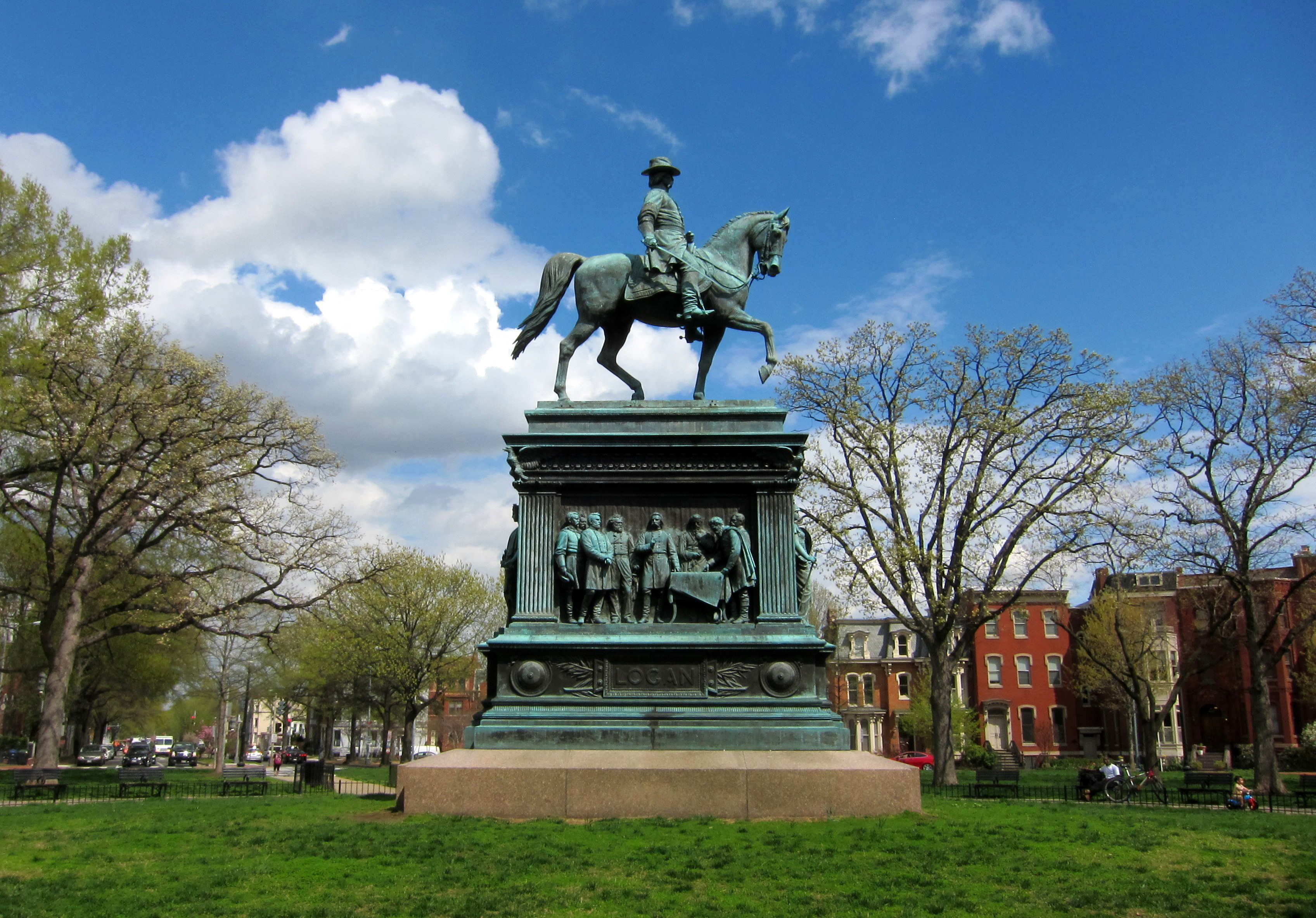 The Major General John A. Logan monument in Washington, D.C.